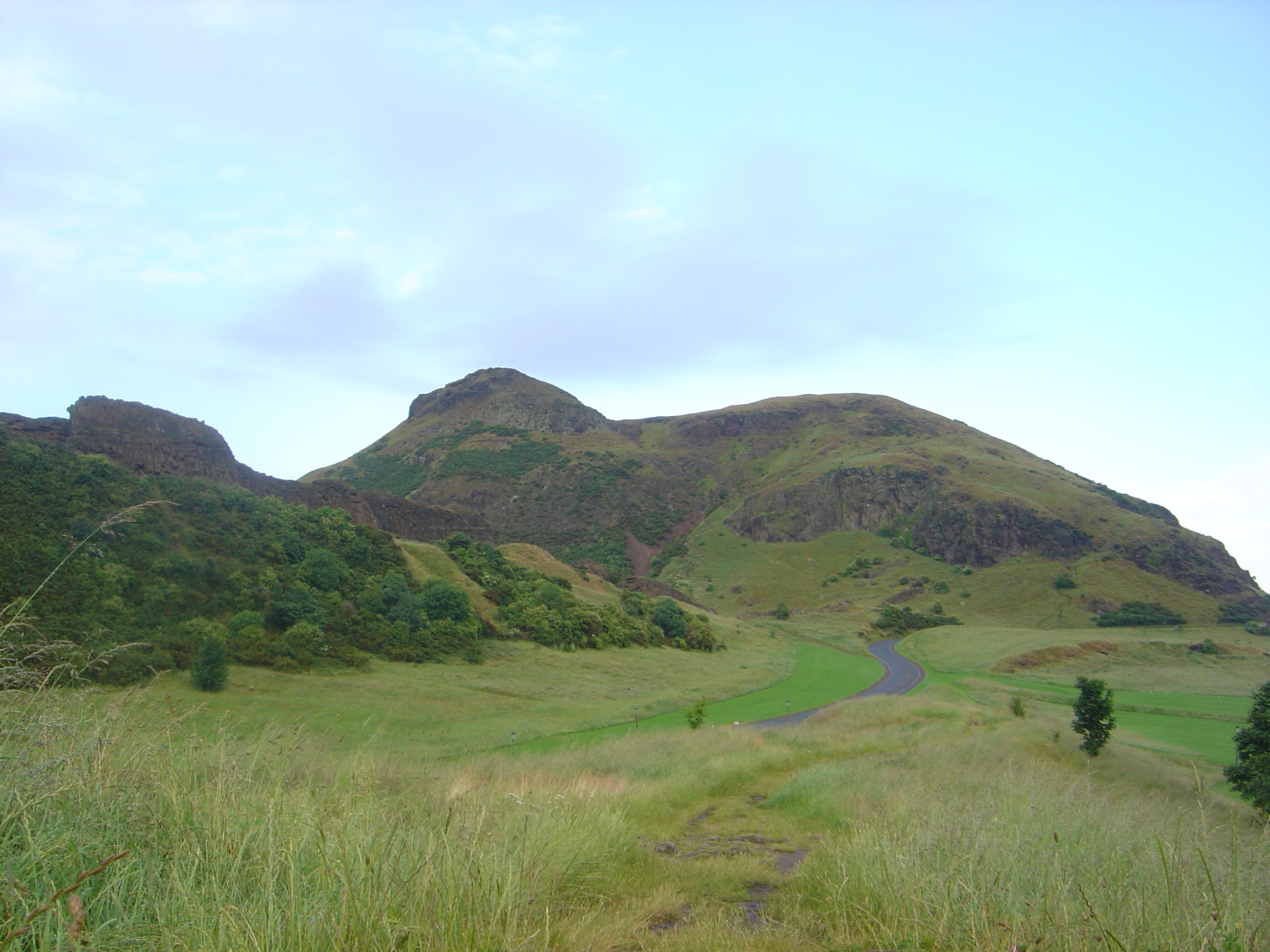 Holyrood Park, Salisbury crags